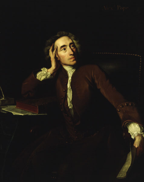 Portrait of Alexander Pope, oil on canvas.